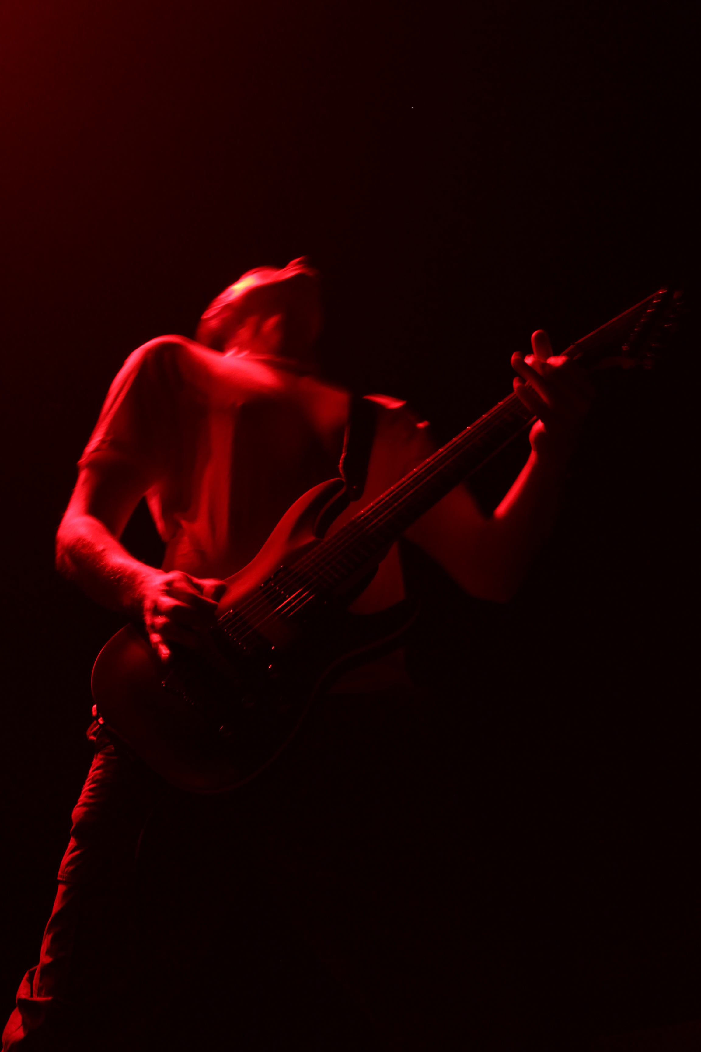 Godflesh @ Henry Fonda Theatre 4/22/14